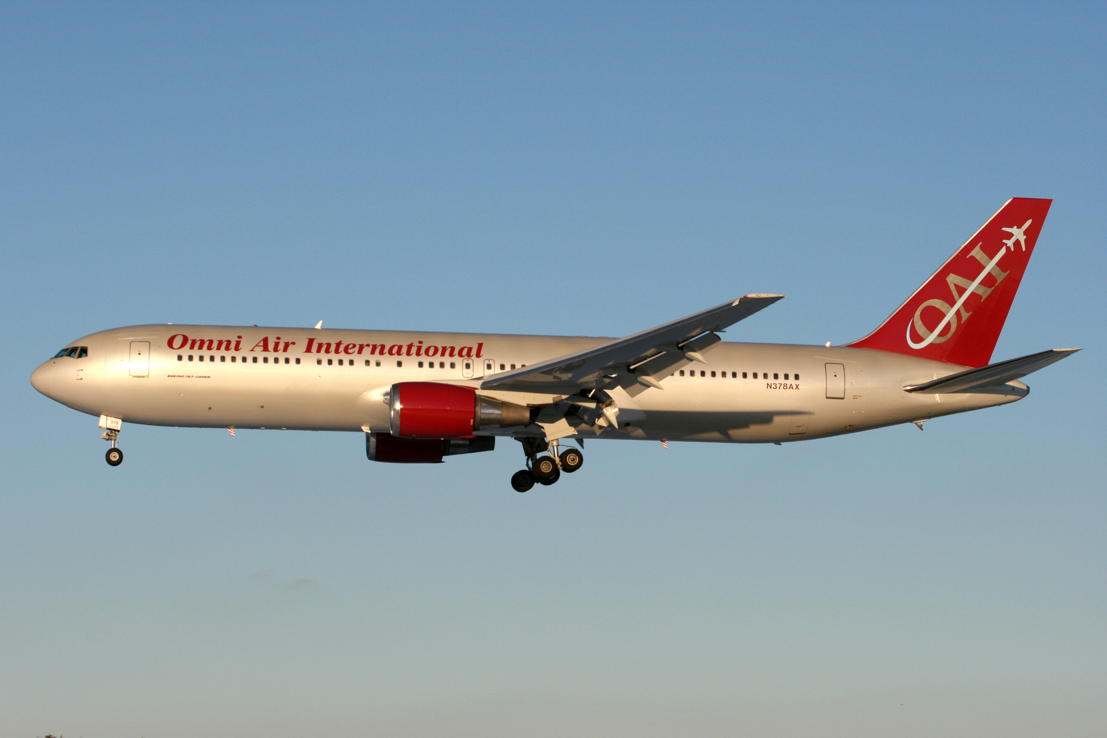 Omni Air International Boeing 767-300 (N378AX)